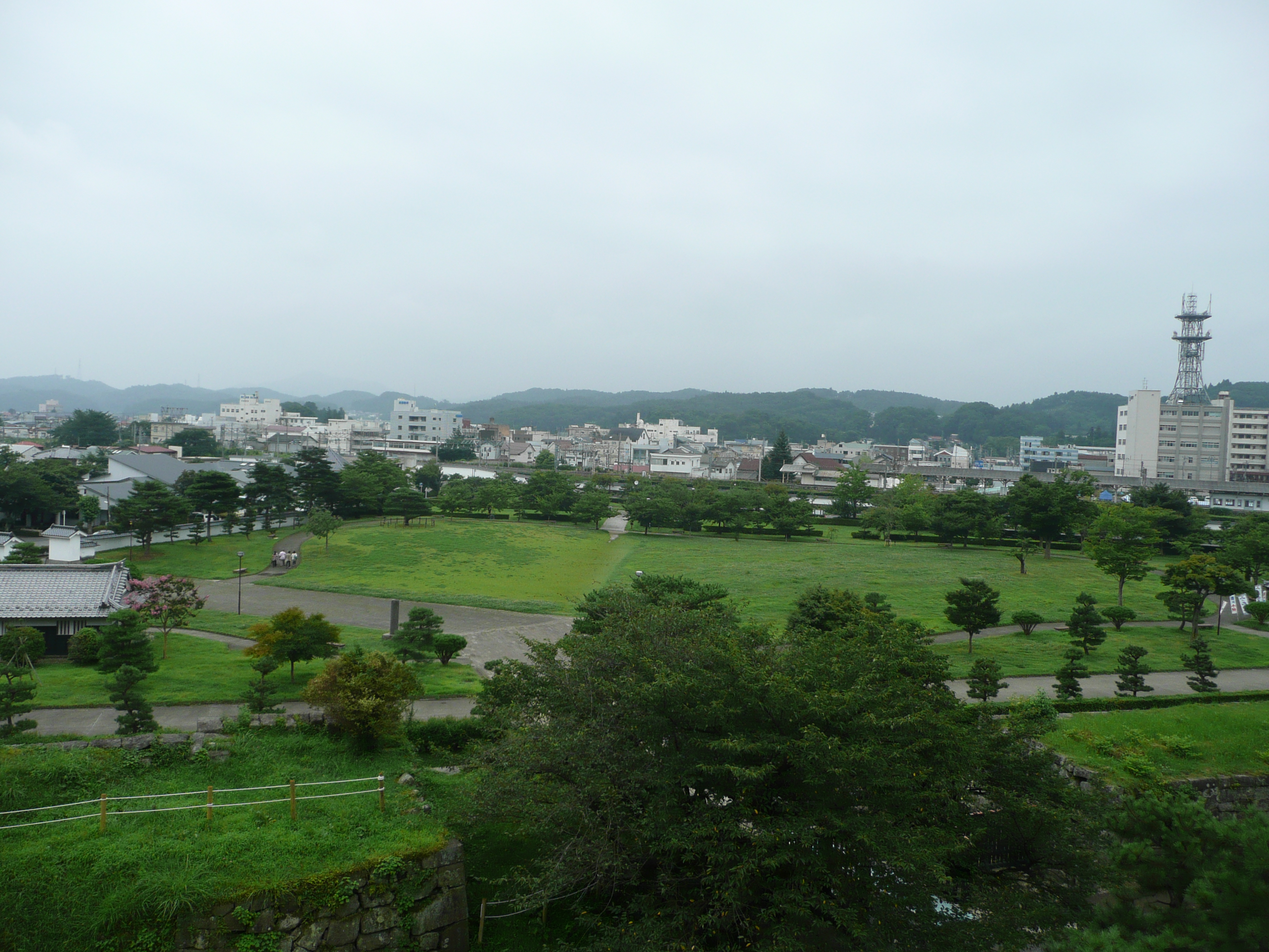 白河小峰城の二の丸